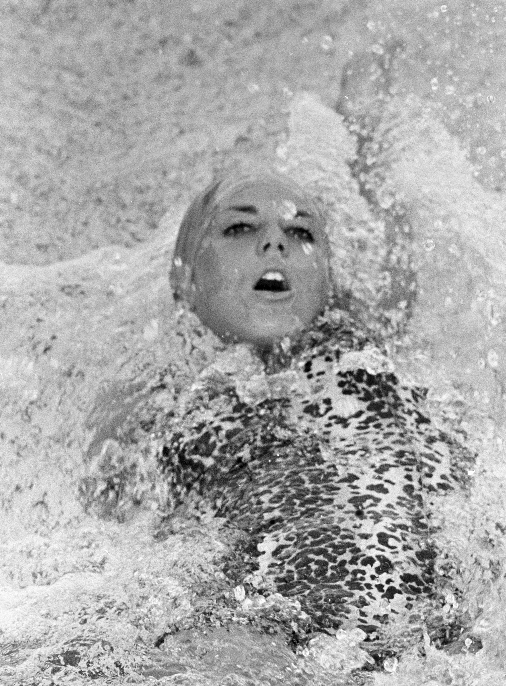 Christine Caron